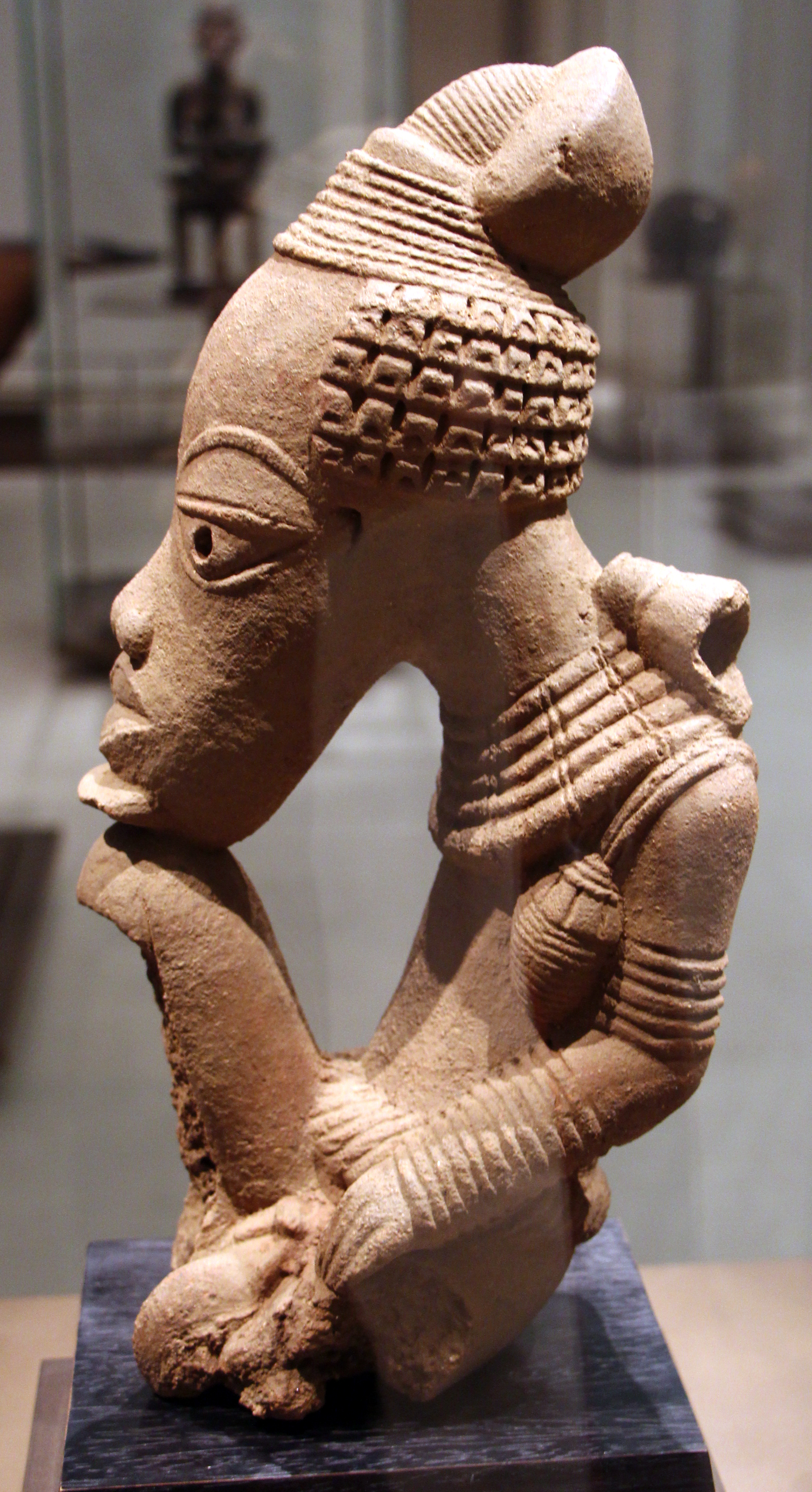 Arts of Africa in the Louvre - Room 2